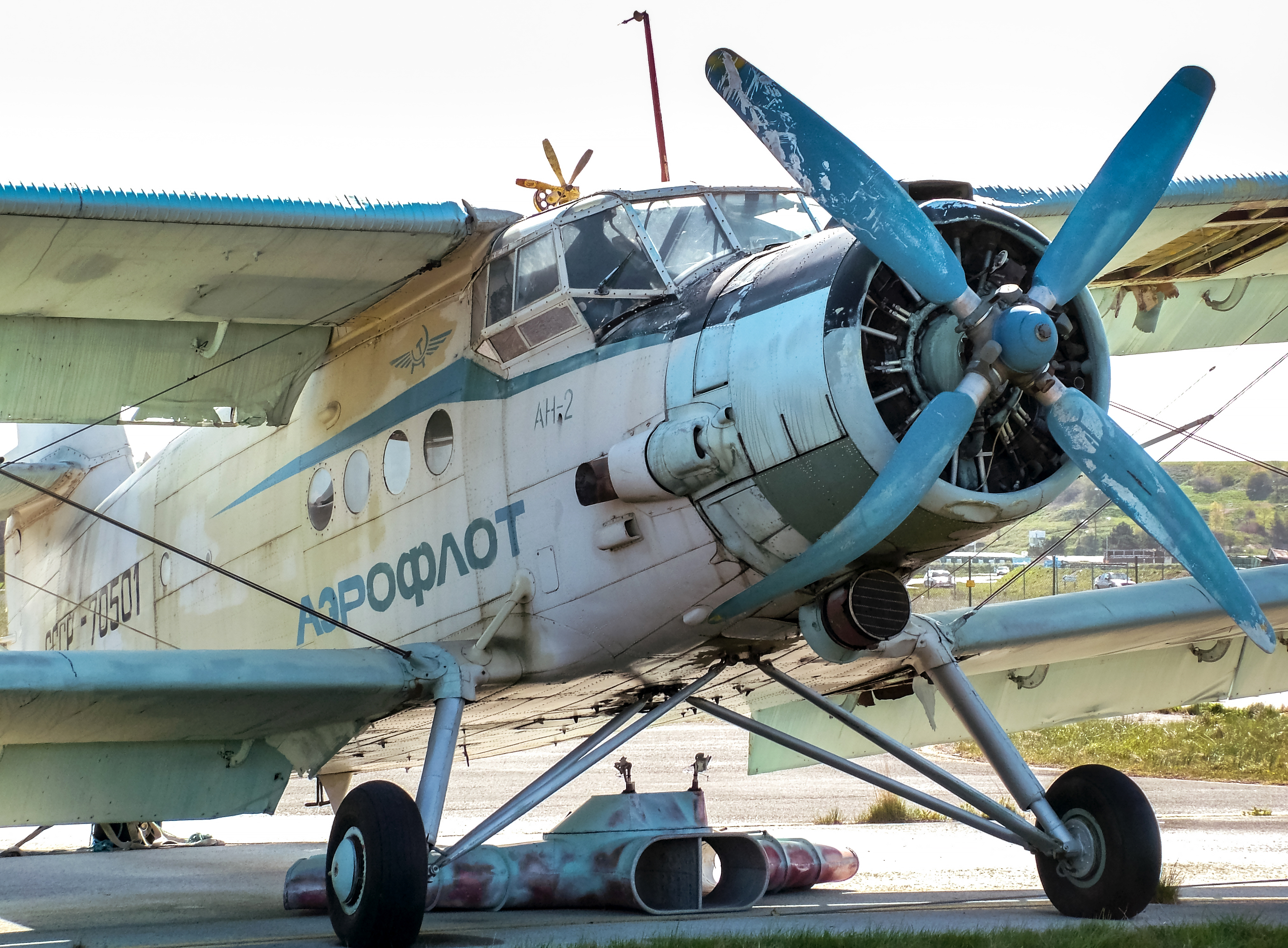 An Antonov An-2 that crashed on the beach in eastern Gotland May 27, 1987, registration CCCP-70501 (c/n 1G144-12 ?). The plane had started in Saldu in Latvia and on board was a defecting Russian named Victor. He then got a job at a restaurant in Visby. The plane was located at the Visby Flight Museum. Nowadays it is located at Gotland's Defence Museum's exhibition "Aerospace & Marine' in Tingstäde in Gotland.